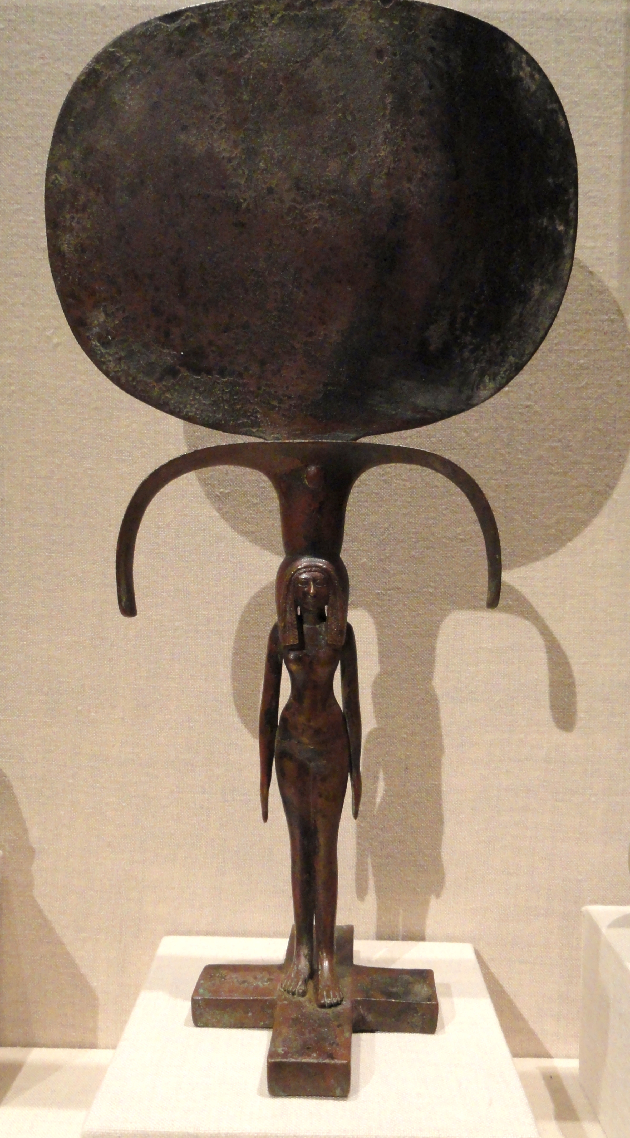 Exhibit in the Cleveland Museum of Art, Cleveland, Ohio, USA. This artwork is old enough so that it is in the public domain.